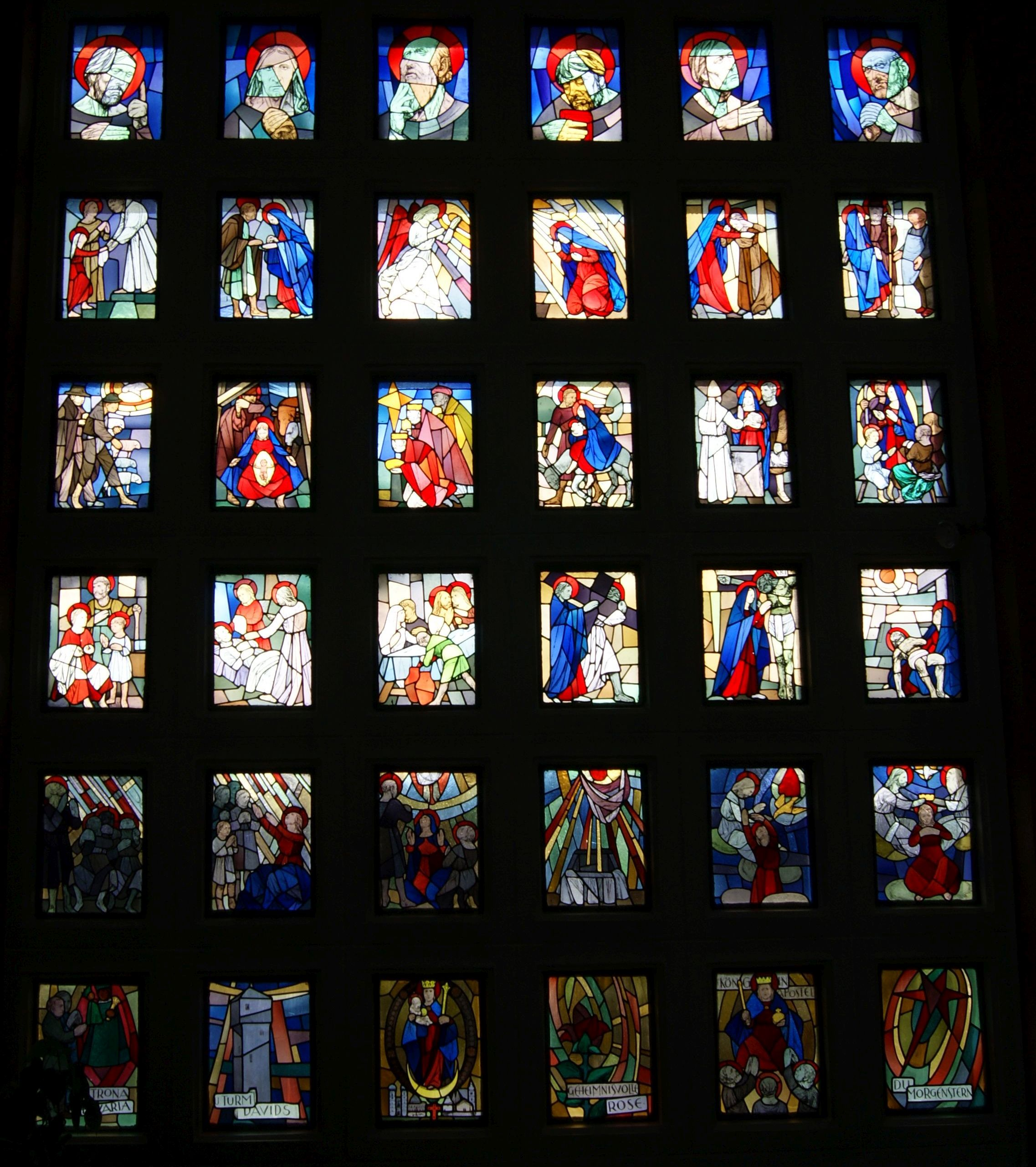 City Roding in the administrative district of Cham in Bavaria. Stained Glass window-wall in the chapel in the district hospital of Roding from Konrad Schmid-Meil, designed in 1968 and executed by the Franz Mayer's Hofkunstanstalt in Munich. A total of 108 stained glass windows. The picture shows the first, left-glass windows composition with 36 images. Top row - six apostles, then the following images shows the life of Mary and bottom row (six images) with individual biblical scenes.